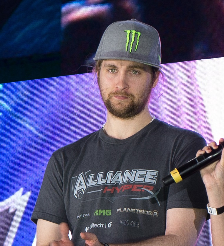 Dota 2 player Loda (Jonathan Berg) at the ESL One Frankfurt 2014